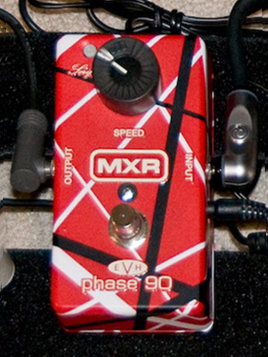 MXR EVH90 Phase 90